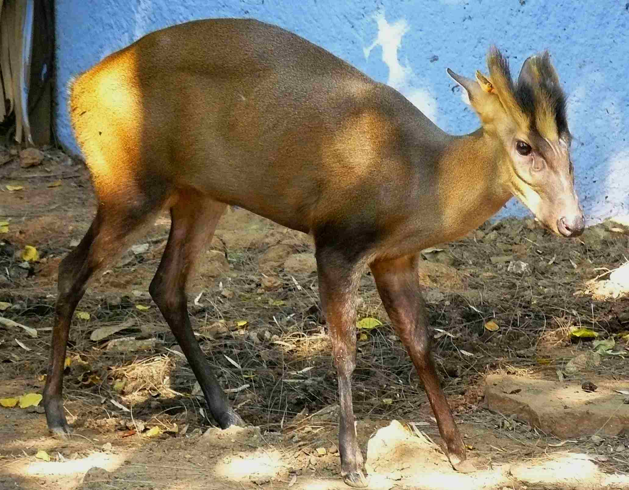 Muntiacus feae (male) at Dusit Zoo Bangkok